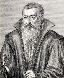 German educator Johannes Sturm (1507-1589) by Jacob van der Heyden (1573-1645) after Tobias Stimmer (1539-1584)